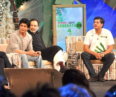 Shahrukh Khan From The NDTV Greenathon at Yash Raj Studios